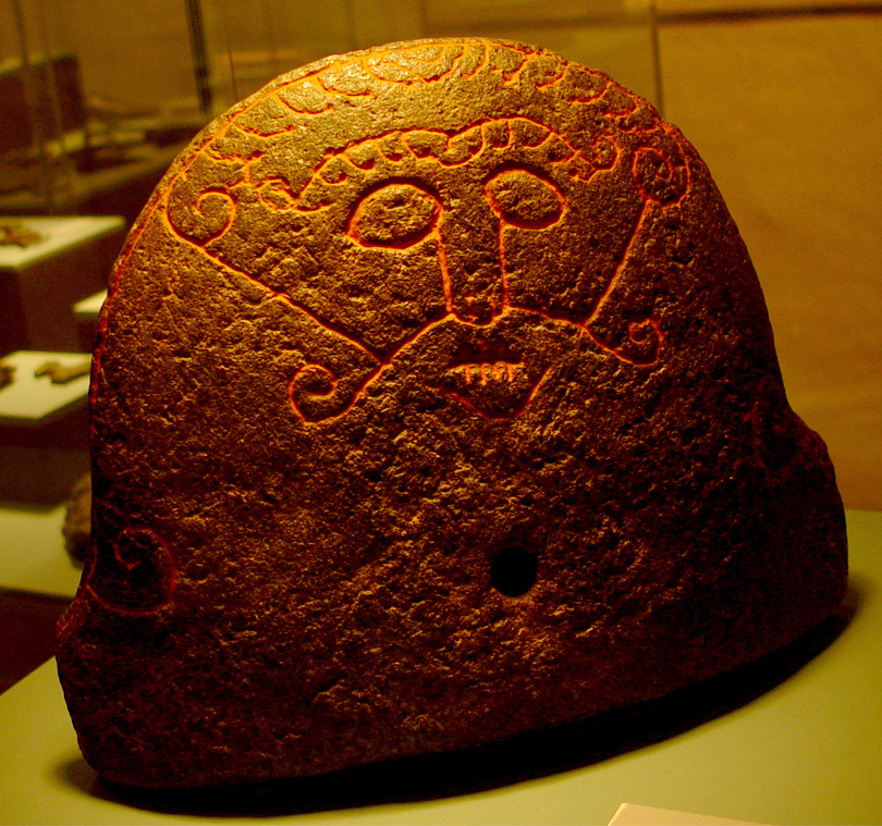 The Snaptun stone, depicting Loki. Housed at the Moesgård Museum near Århus, Denmark.